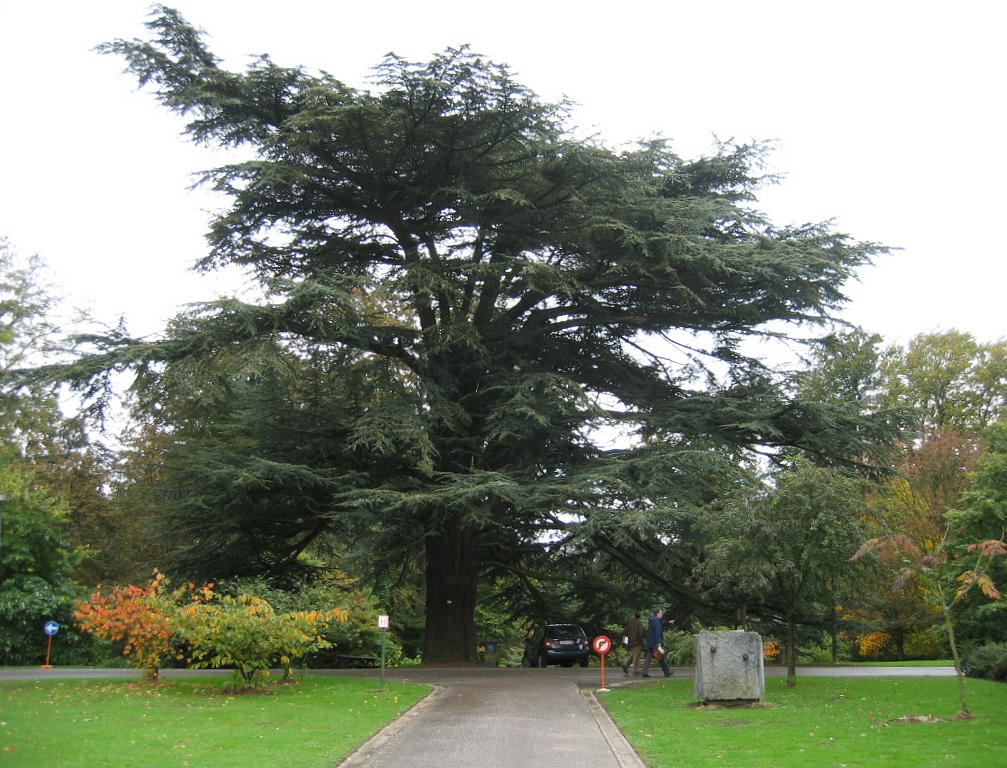 Cedrus libani var. atlantica, specimen near the museum of Mariemont, Morlanwelz (Belgium). Picture taken by Tim Bekaert on October 21, 2006.